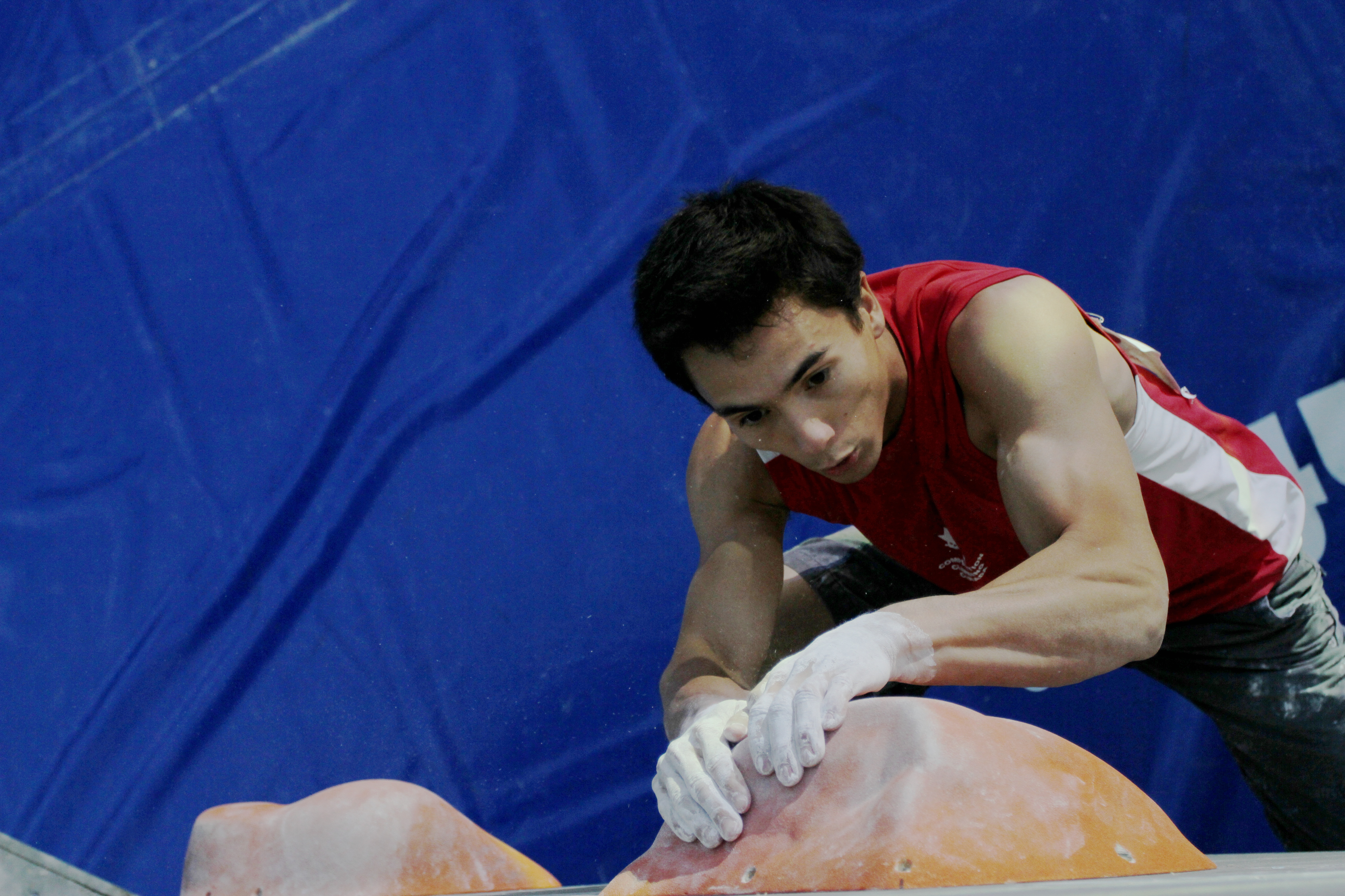 Sean McColl, CAN at the Boulder Worldcup 2012 in the Munich Olympic stadium